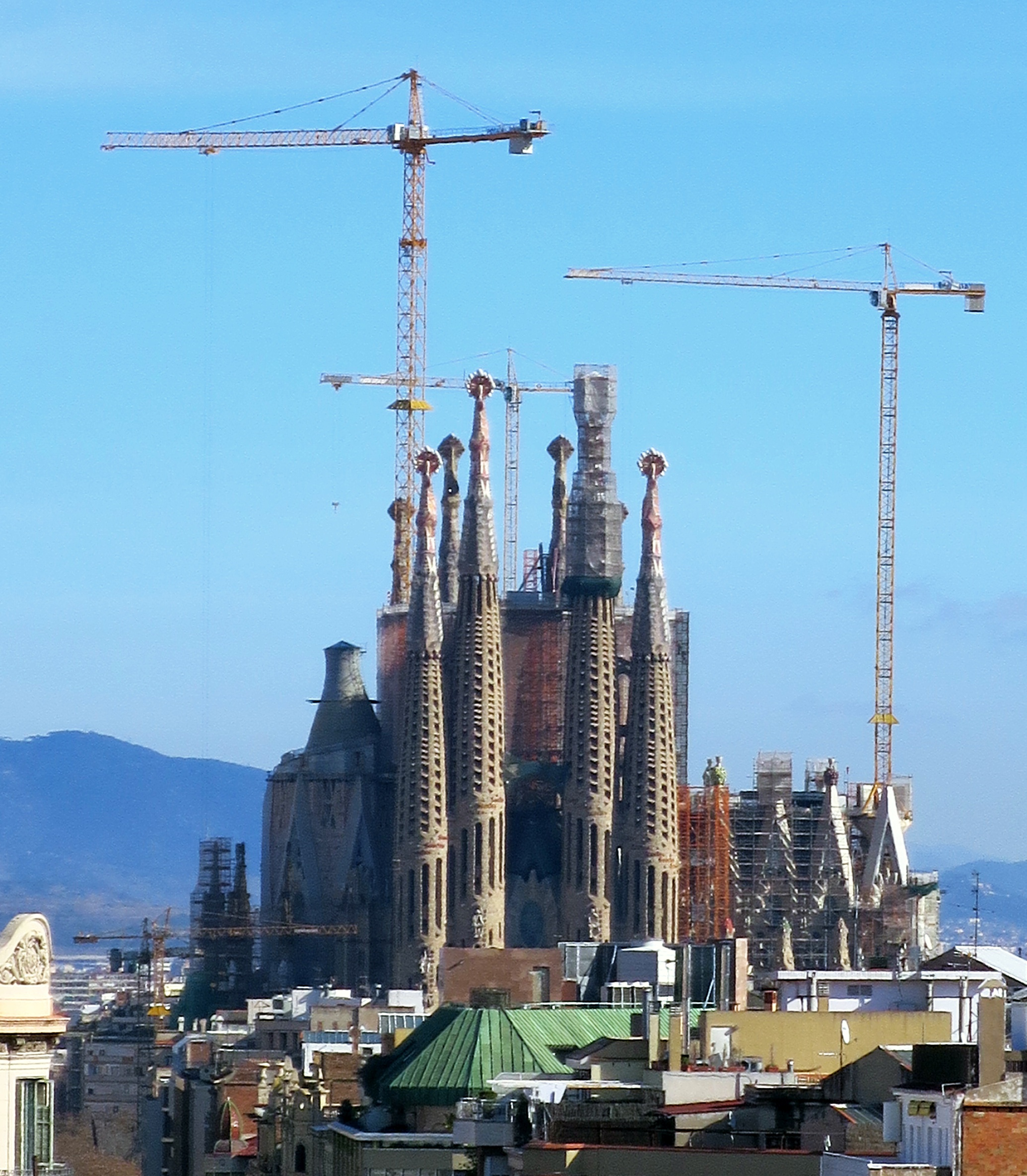 Sagrada Família (Barcelona), February 2014